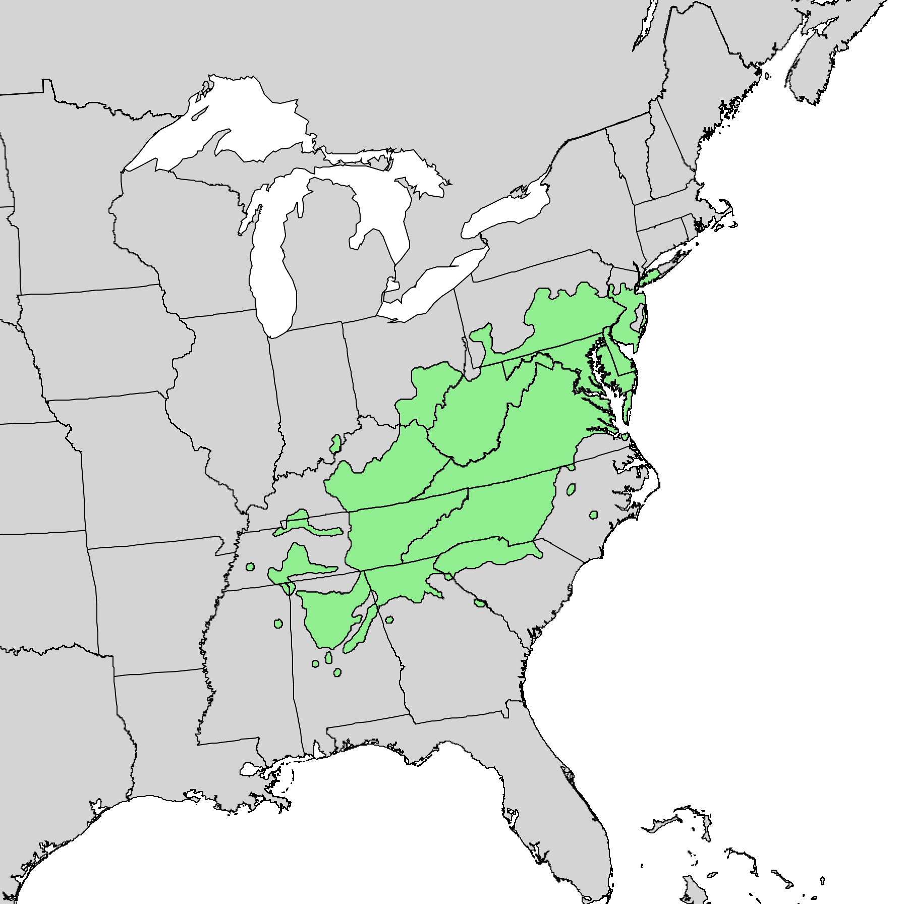 Natural distribution map for Pinus virginiana